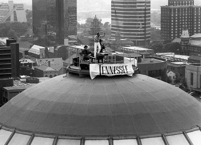 Jason D. Williams performs atop Knoxville's Sunsphere, a 266-foot monument built for the city's 1982 World's Fair.